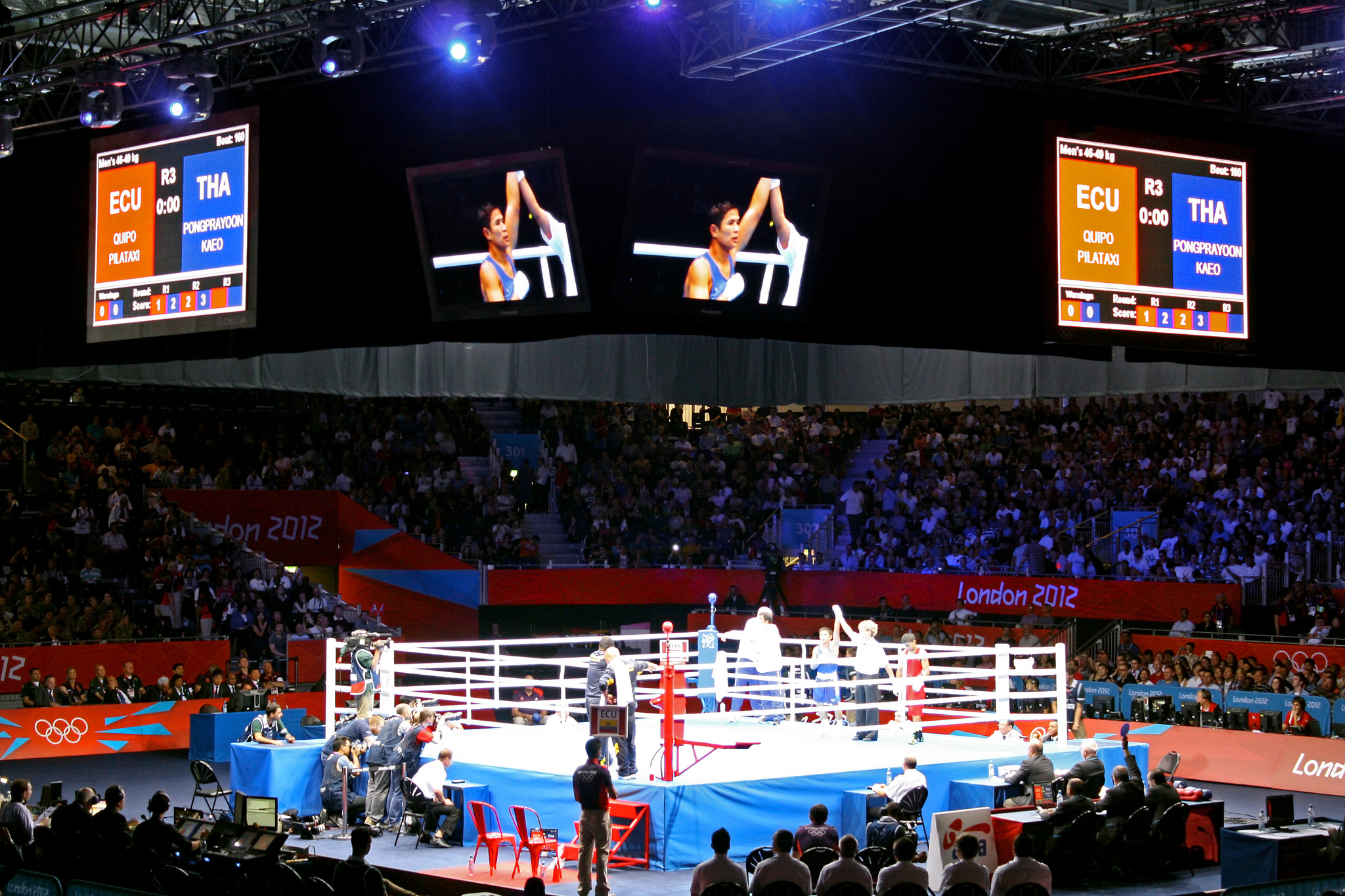 Carlos Quipo (ECU, red) vs. Kaeo Pongprayoon (THA, blue) in the men's light flyweight round of 16 bout at the 2012 Summer Olympics.